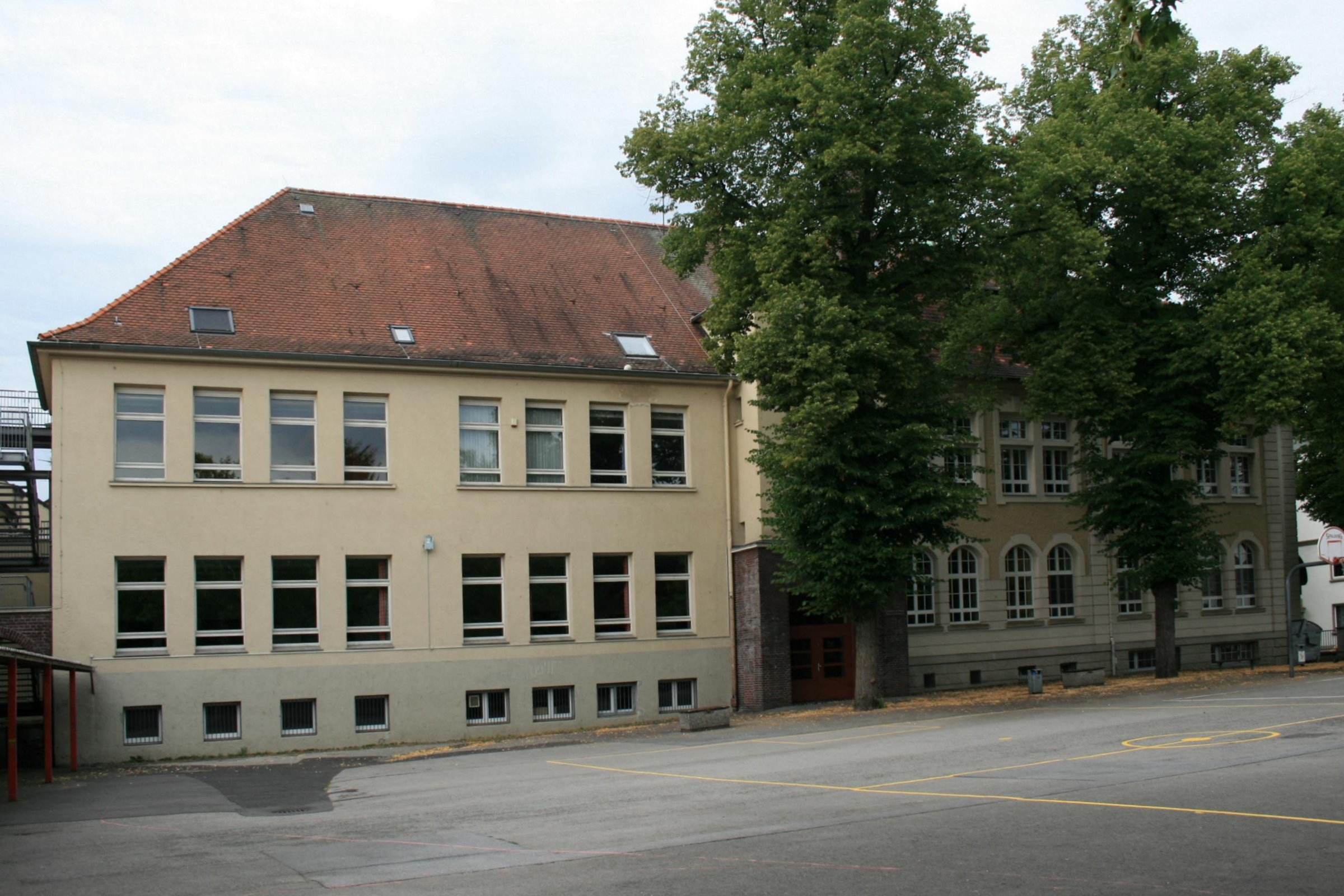 Cultural heritage monument No. W 011 in Mönchengladbach